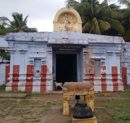 Maruthur kailasanathar temple மருதூர் கைலாசநாதர் கோயில்